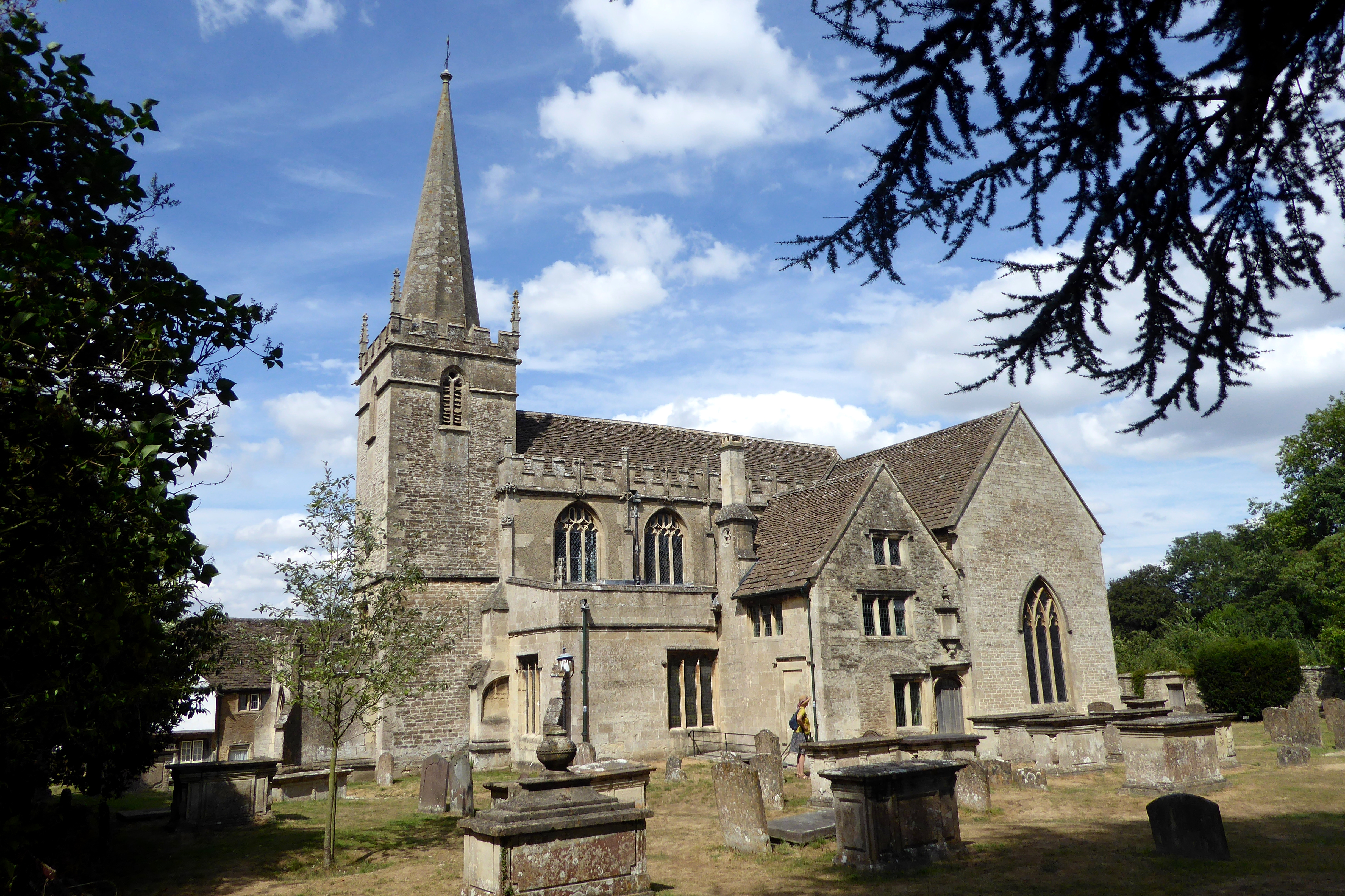 View of St Cyriac's Church, Lacock from the southwestern side of the churchyard